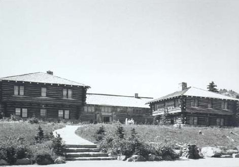 The Yakima Park Stockade Group — in the Sunrise Historic District of Mount Rainier National Park. On the National Register of Historic Places in Mount Rainier National Park.